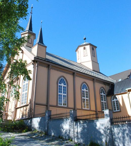 Our Lady of Tromsoe Norway, Northernmost Catholic cathedral in the world